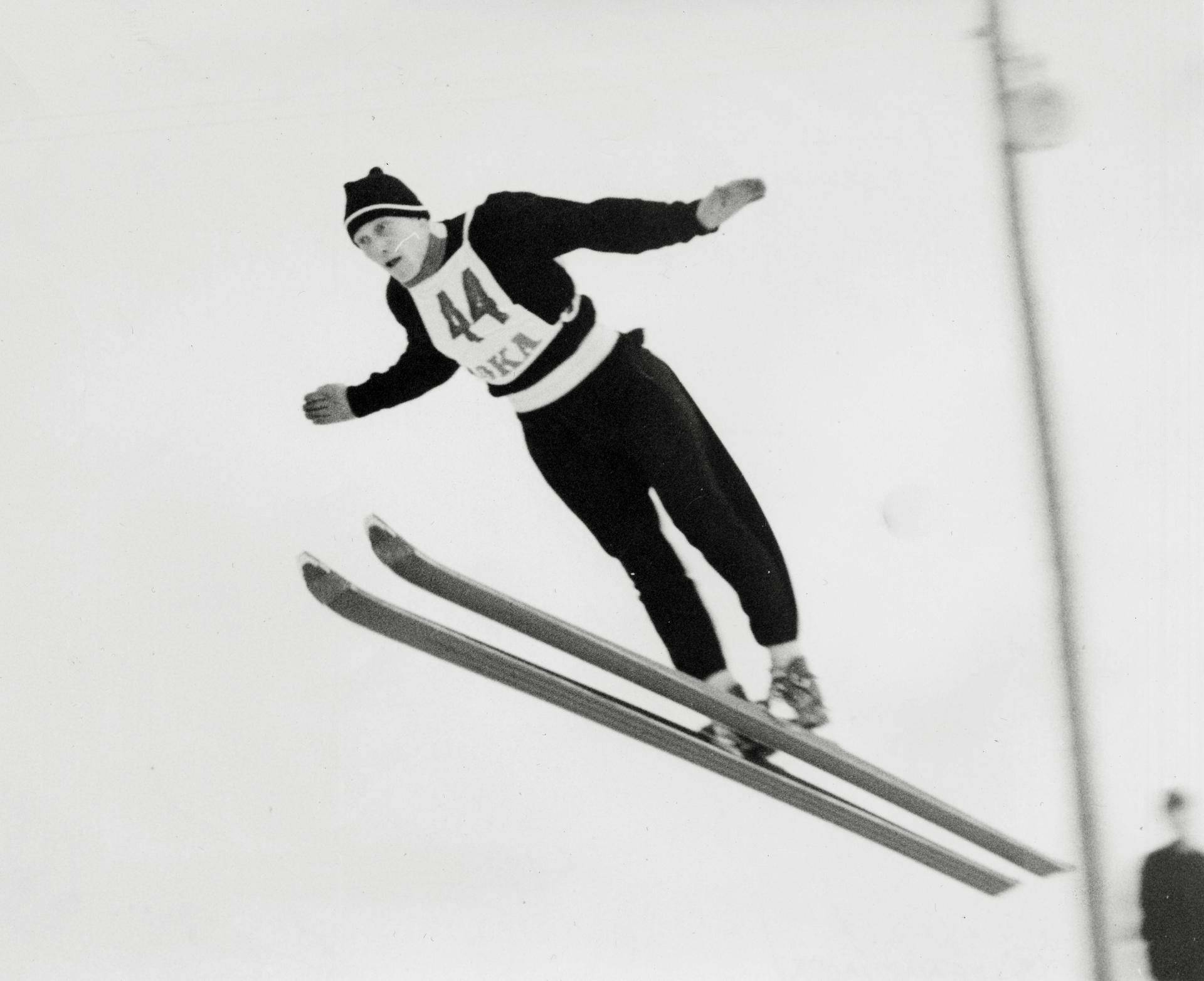 Photograph of the Finnish ski jumper Hemmo Silvennoinen (1932–2002).